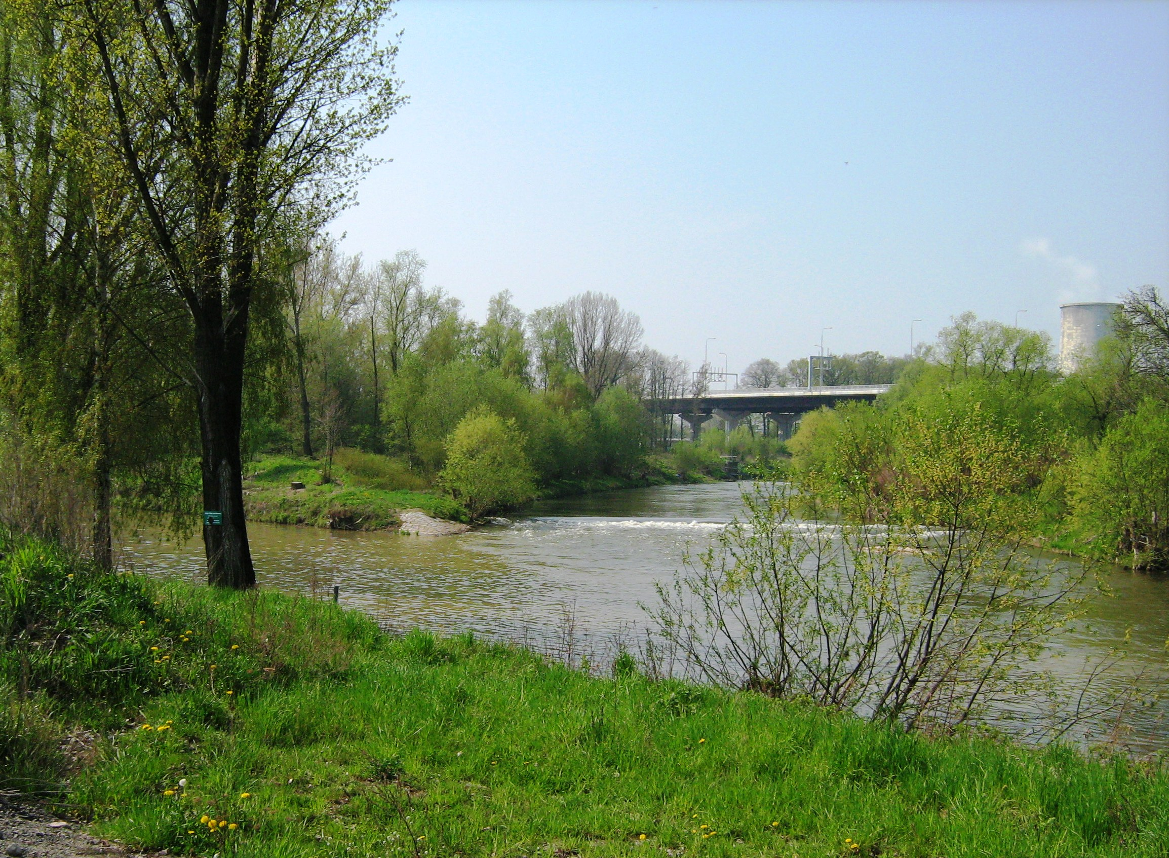 Confluence of the River Odra (left) and the River Opava (right) in Ostrava